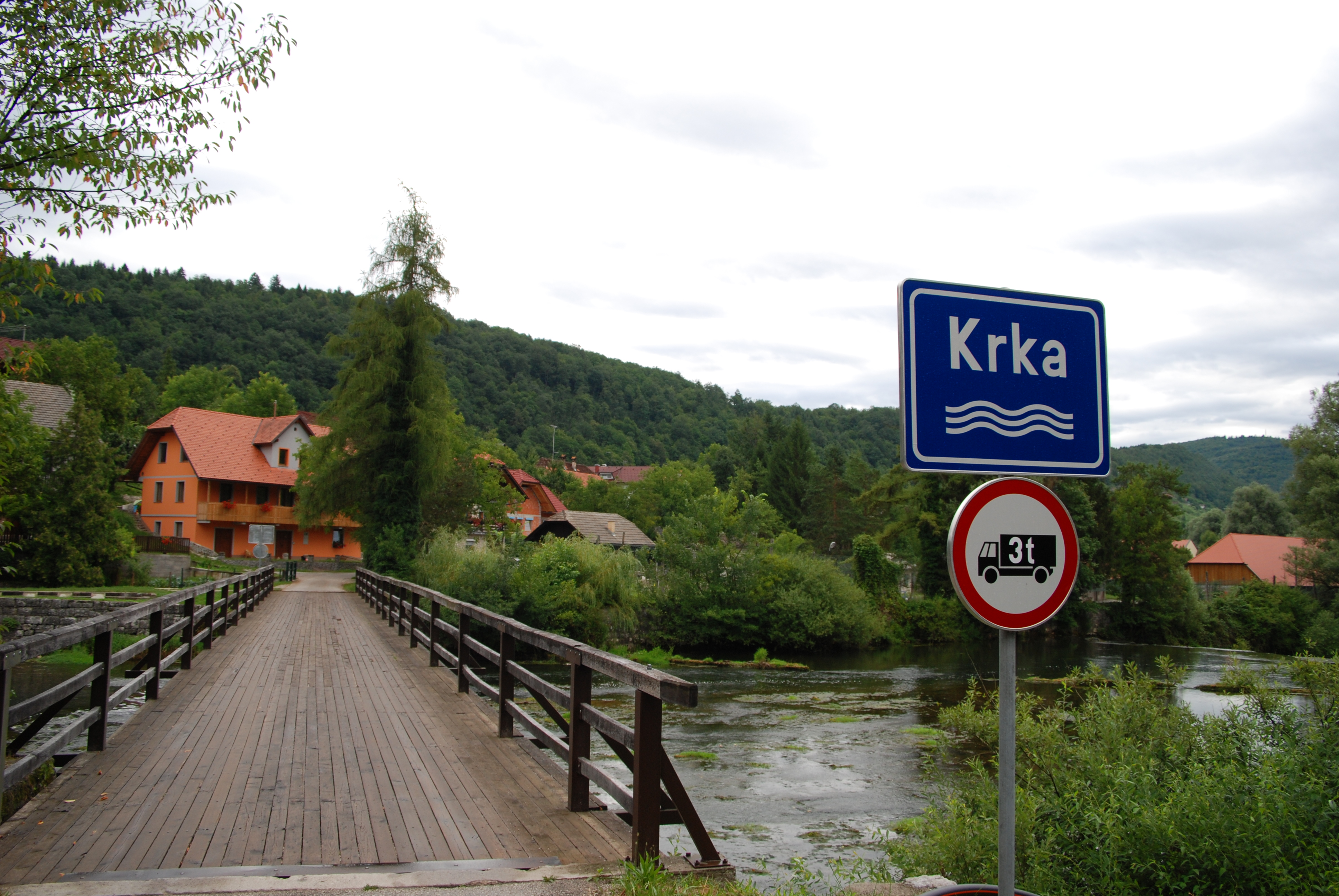 The Krka River in Dvor, Municipality of Žužemberk, Slovenia.